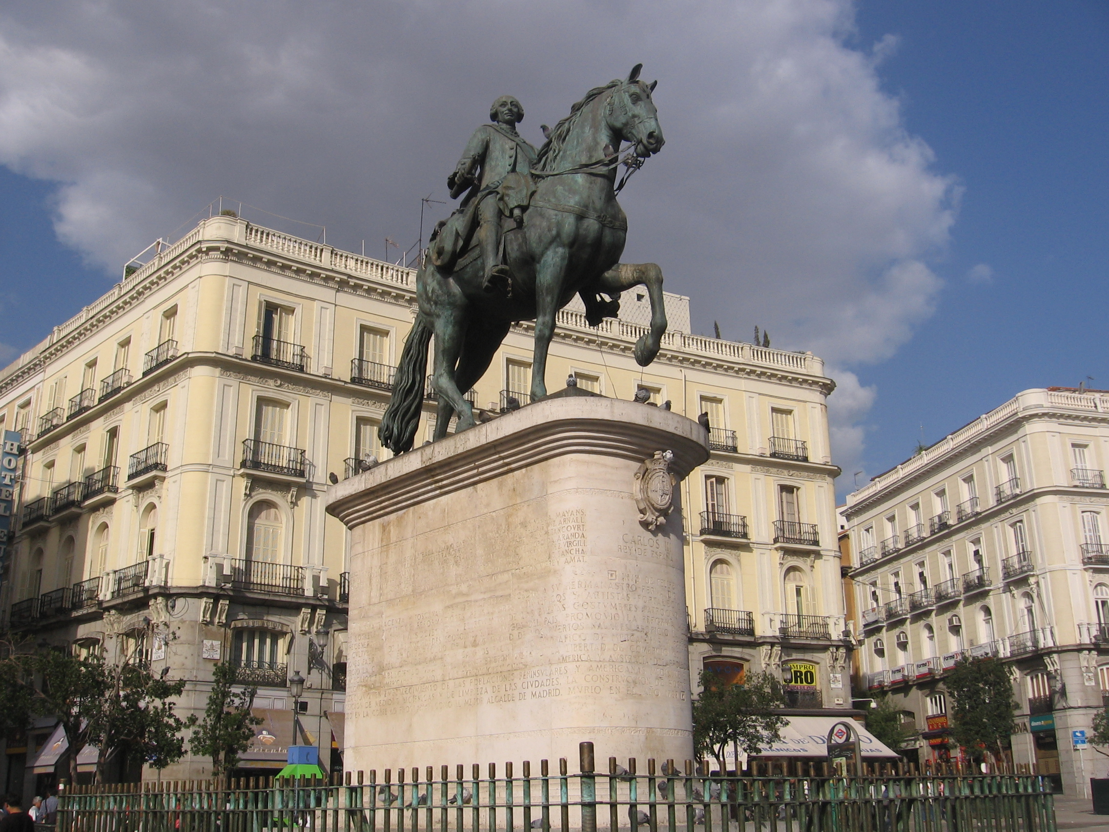 Puerta Del Sol, Madrid: statue of King Charles III.